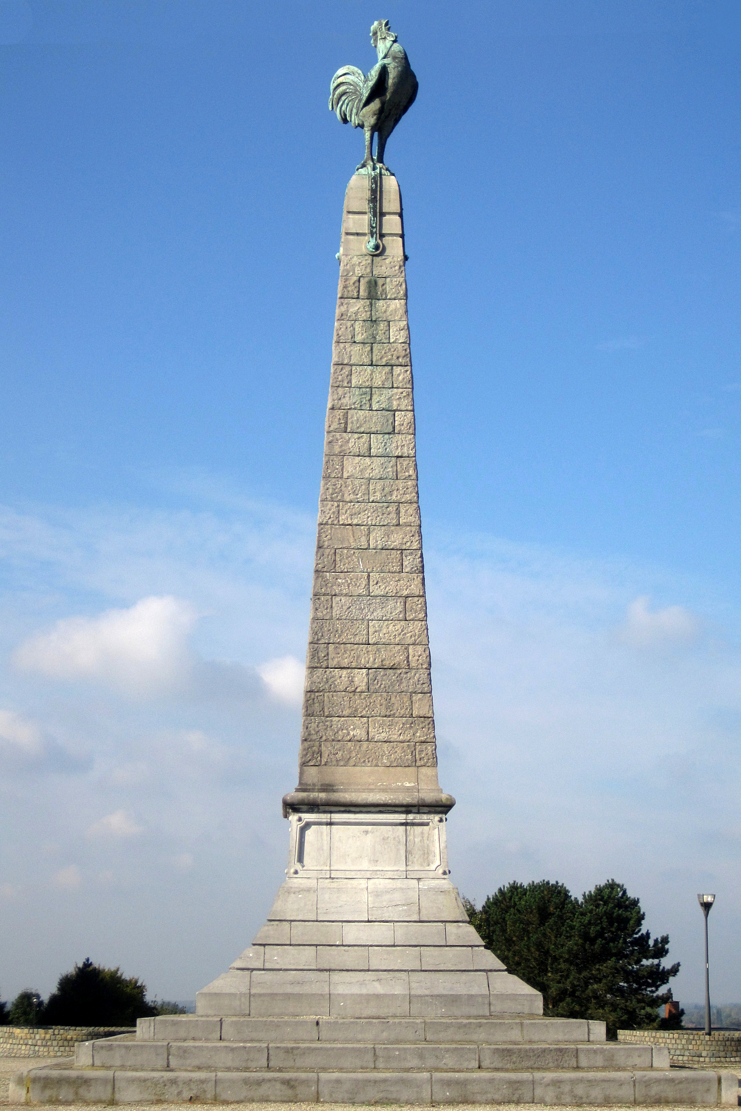 Jemappes (Belgium), the monument du "Coq" (of the Rooster) erected in memory, the battle having opposed the 6 november 1792 the French Revolutionary Army ordered by General Dumouriez to the Austrian army under orders of Albert of Saxe-Teschen.